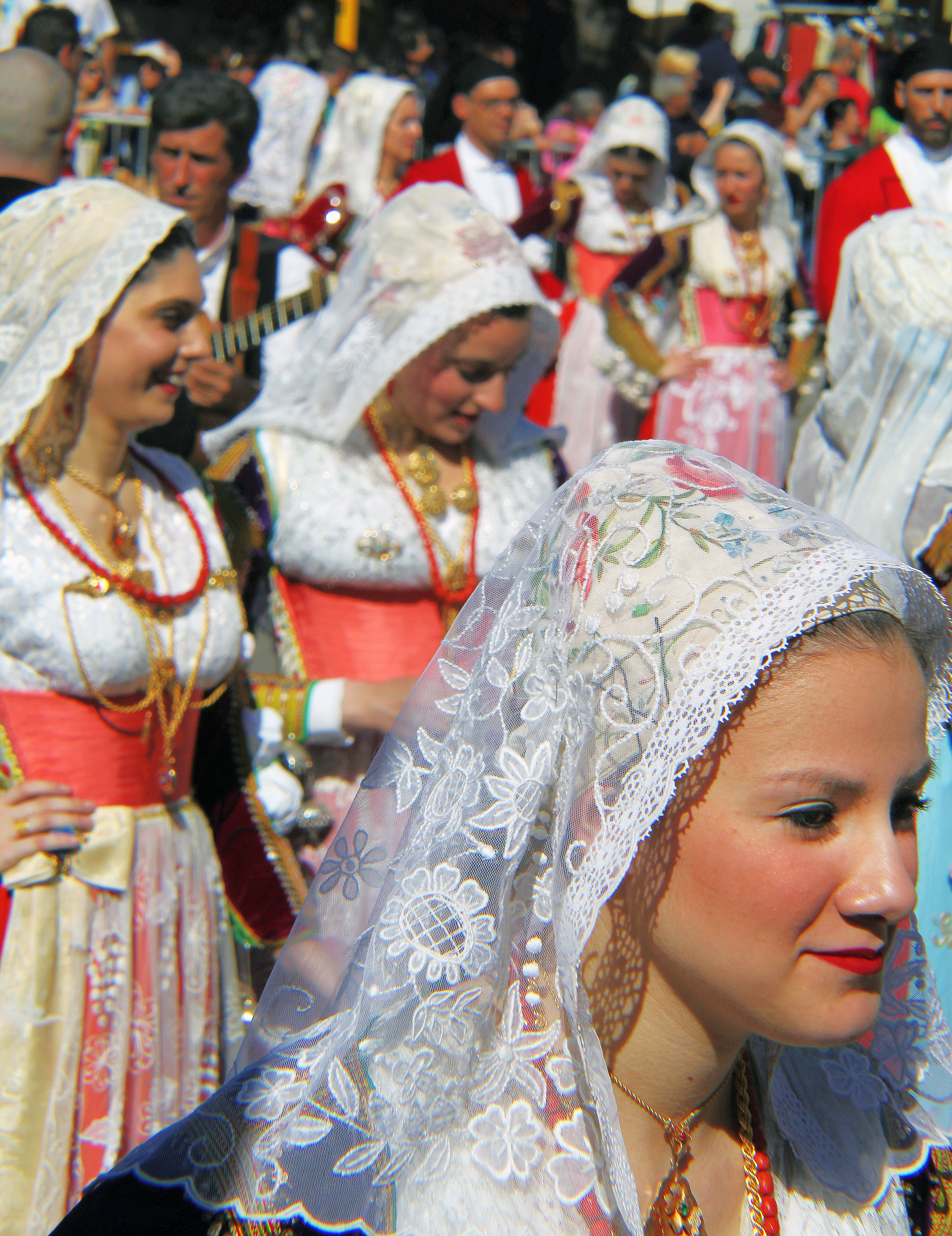 Sardinian Cavalcade Festival, 2016 Folk Costumes of Sardinia